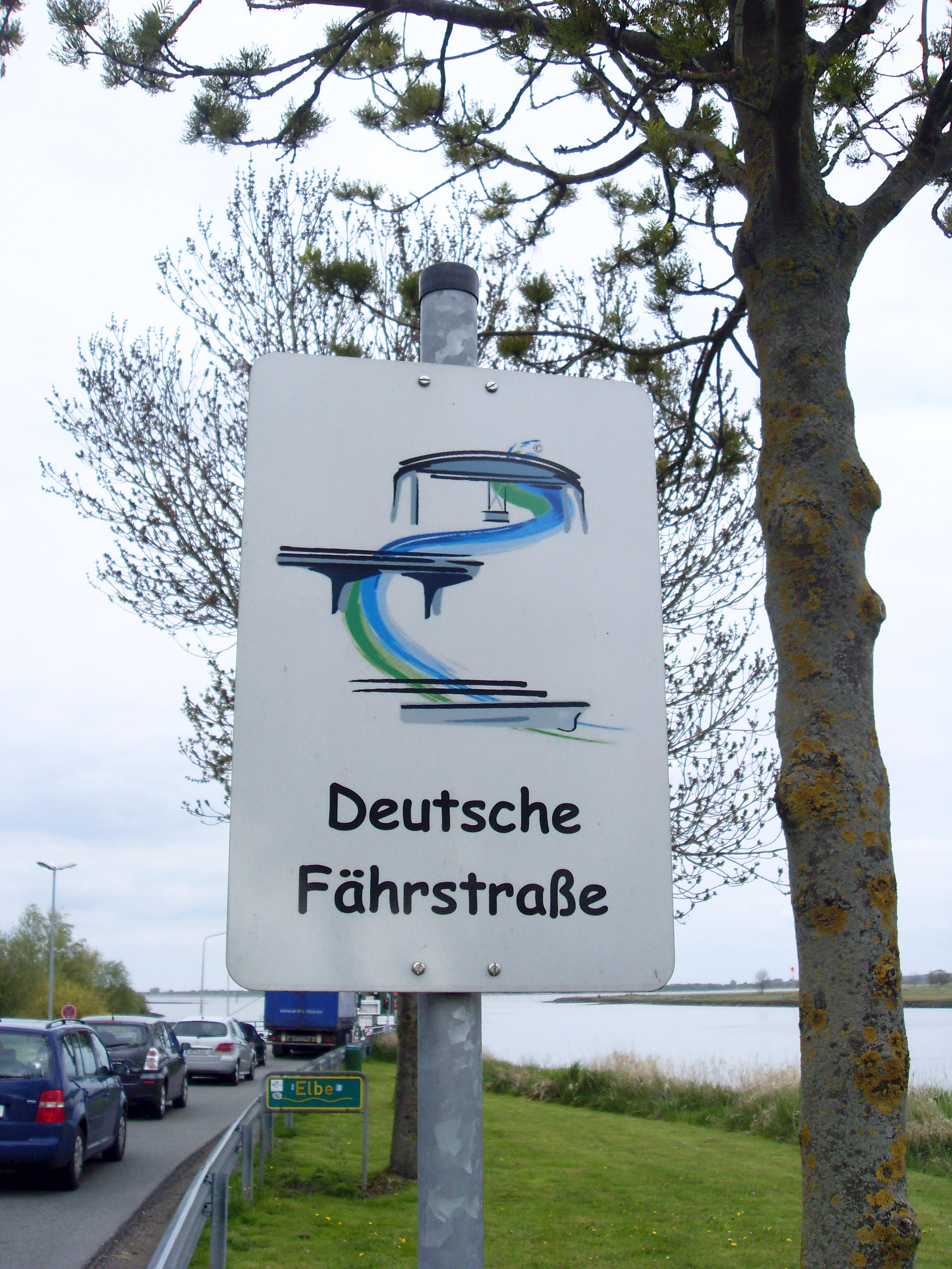 Sign and part of the Deutschen Fährstraße close to river Elbe near Wischhafen